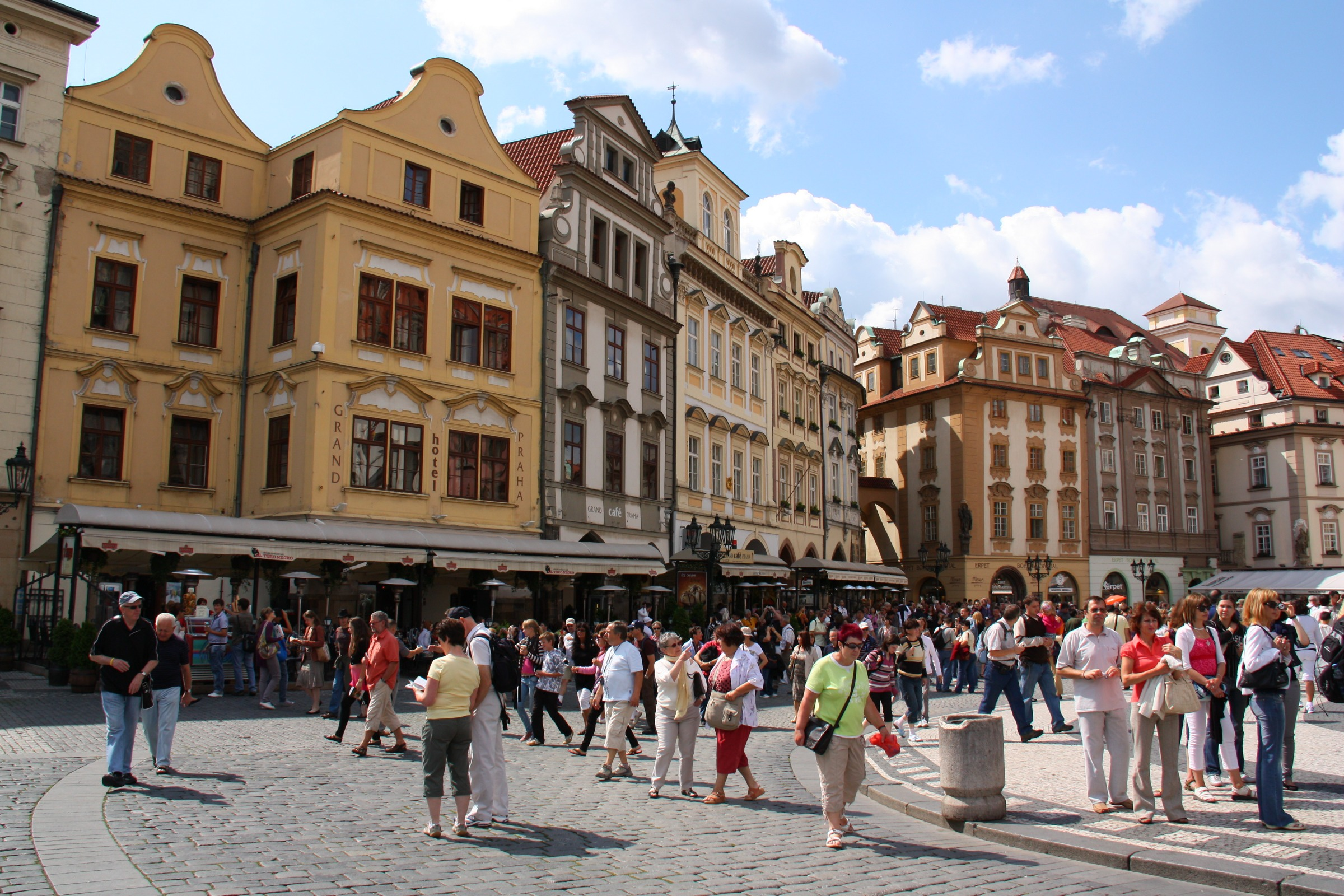 The Old Town Square area in Prague, Czech Republic.